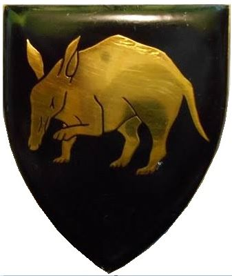 SADF era Sandton Command emblem